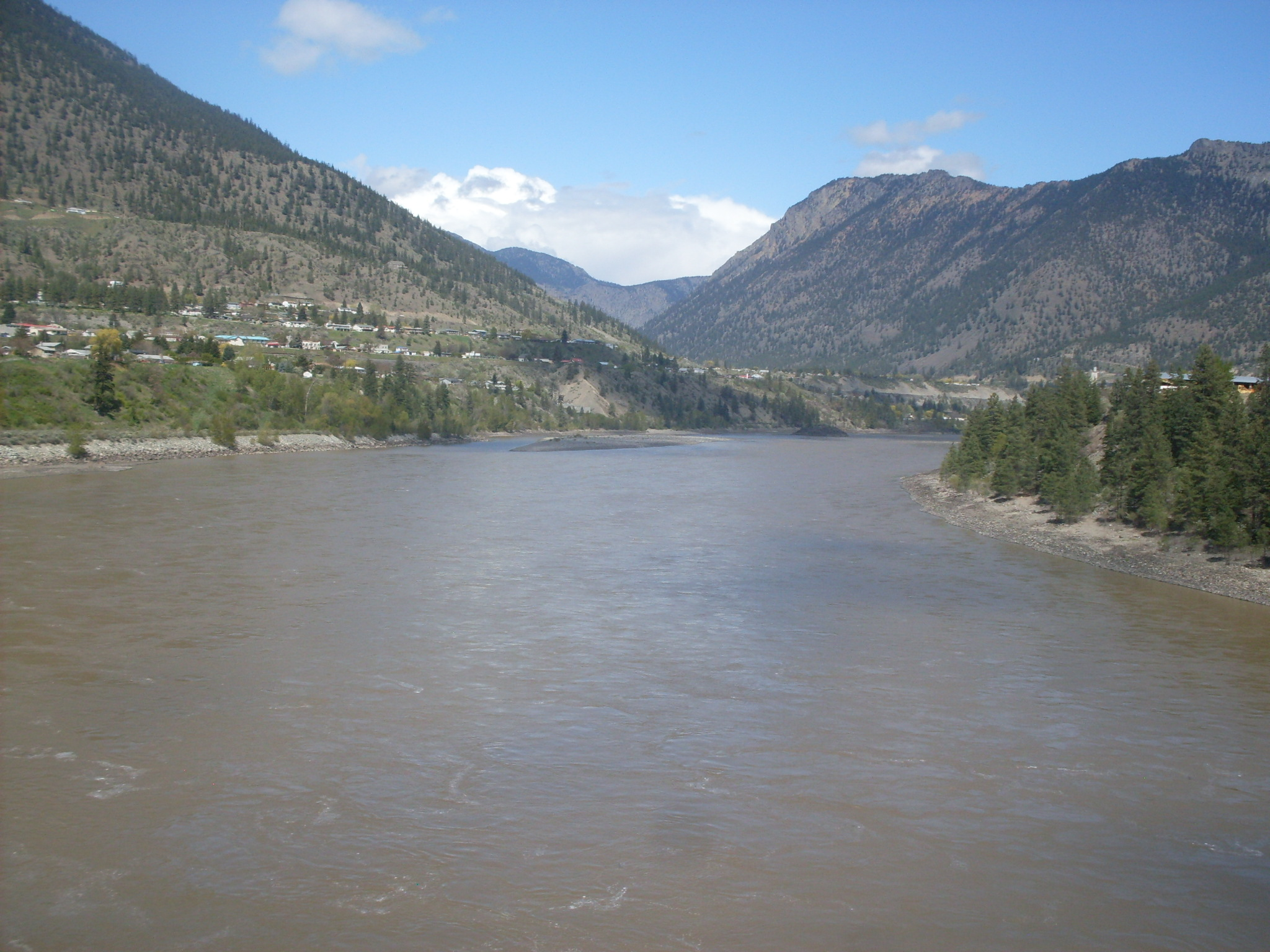 Fraser River in Lillooet